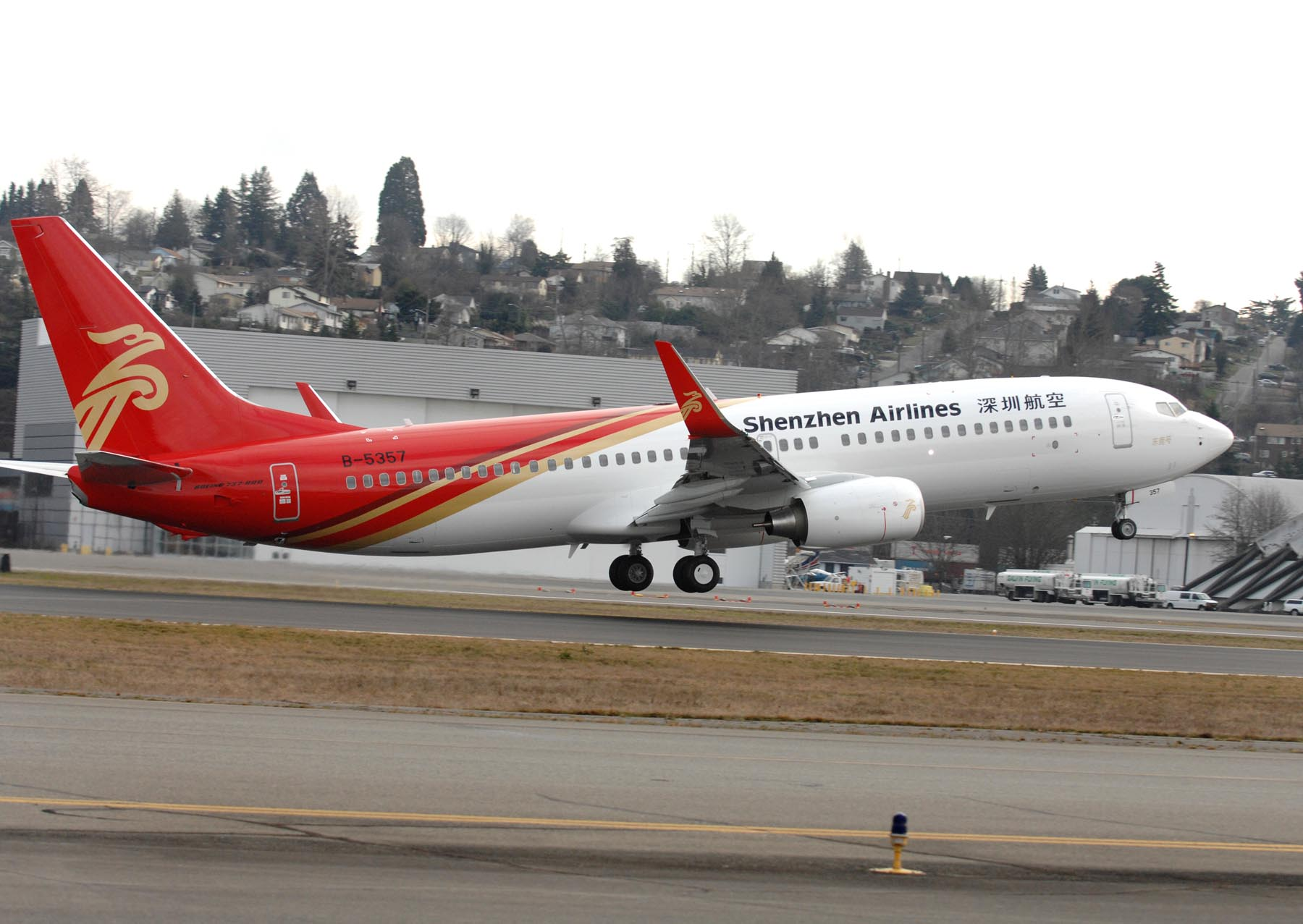 Shenzhen Airlines Boeing 737-800